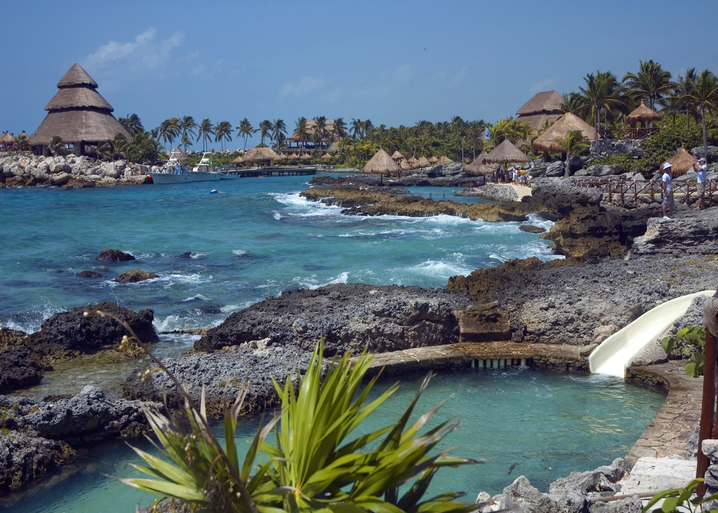 Es una de las espectaculares vistas del parque acuático y temático Xcaret, con su hermoso mar azul.